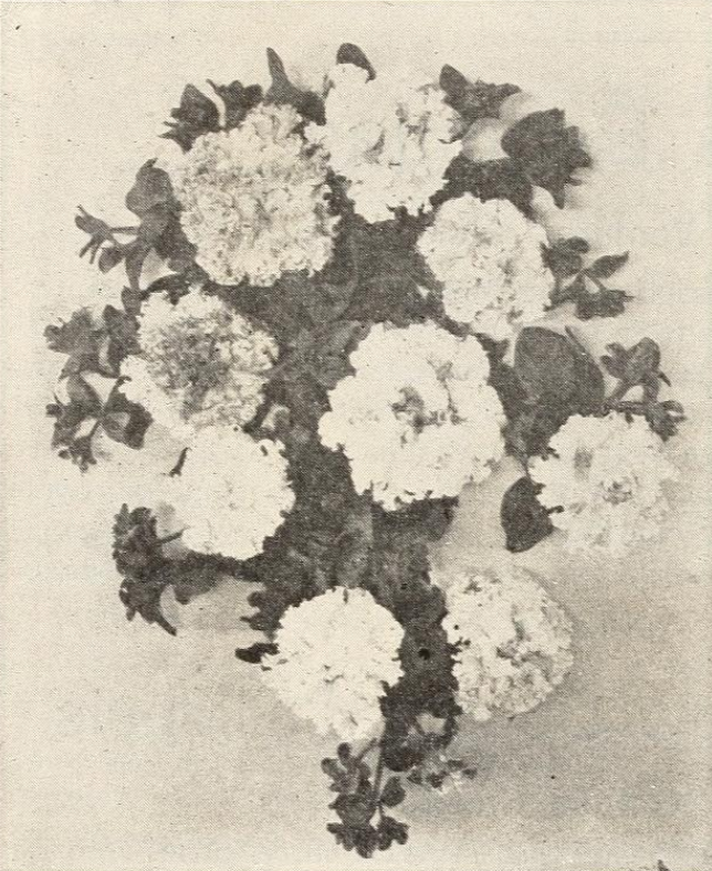 "Mrs. Shepherd's new Marvelous Double Petunias" from her catalog, Mrs. Theodosia B. Shepherd's descriptive catalogue of flowers : plants, bulbs, seeds cacti etc, by Theodosia B. Shepherd Company; Henry G. Gilbert Nursery and Seed Trade Catalog Collection. Publisher Ventura-by-the-Sea, Calif. : Theodosia B. Shepherd Co. Publication date 1908, p 4